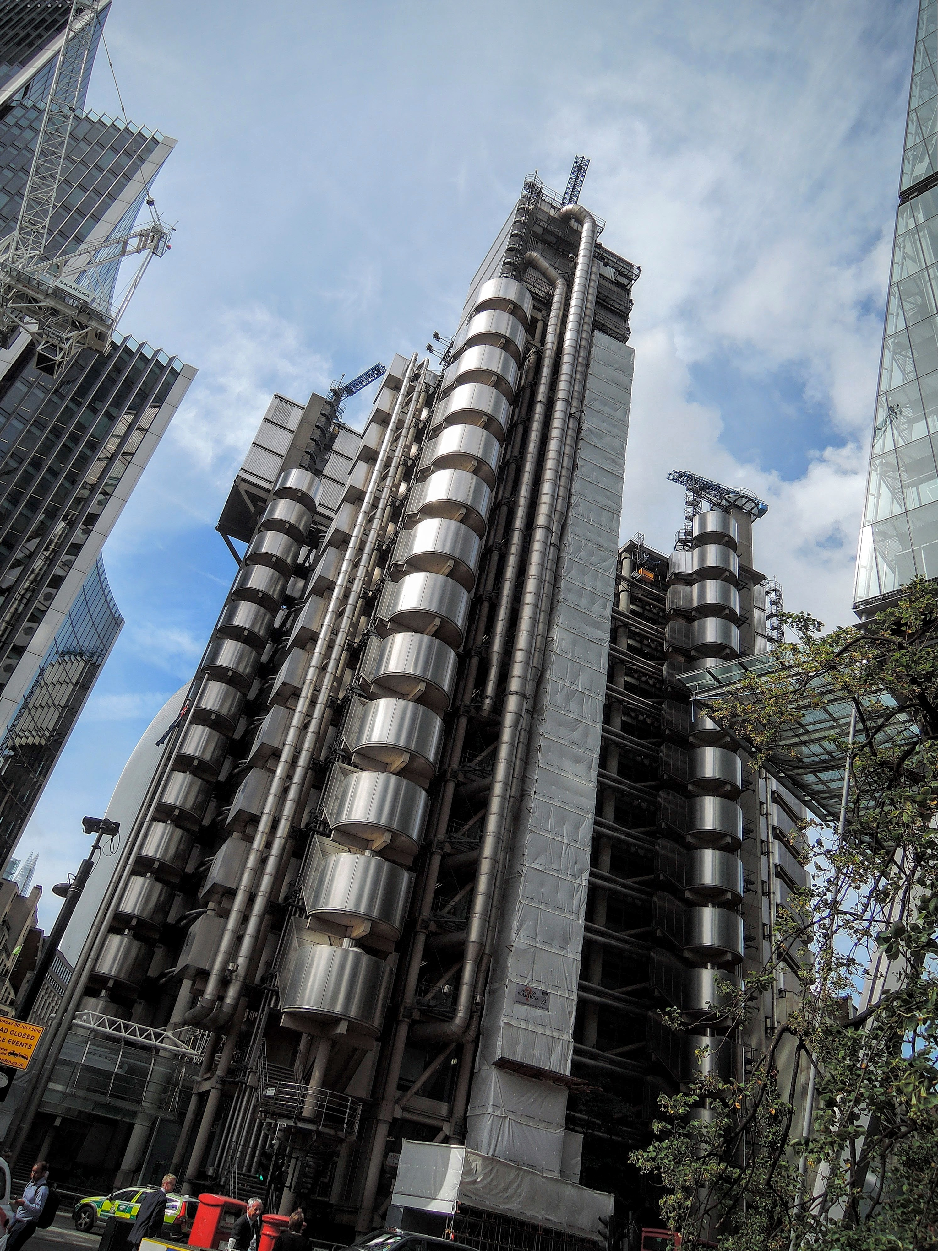 City of London, London, UK